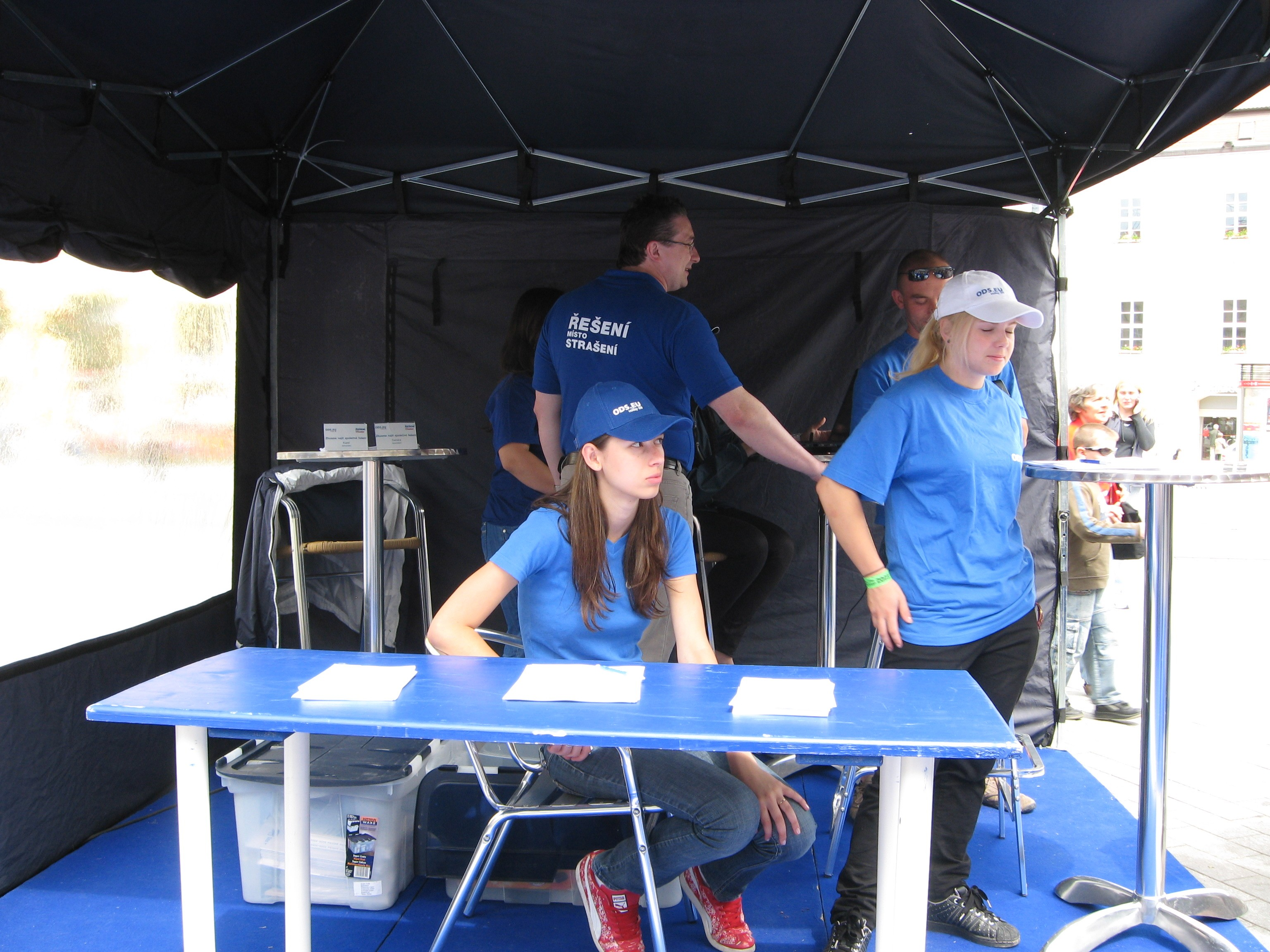 Modry tym in Brno